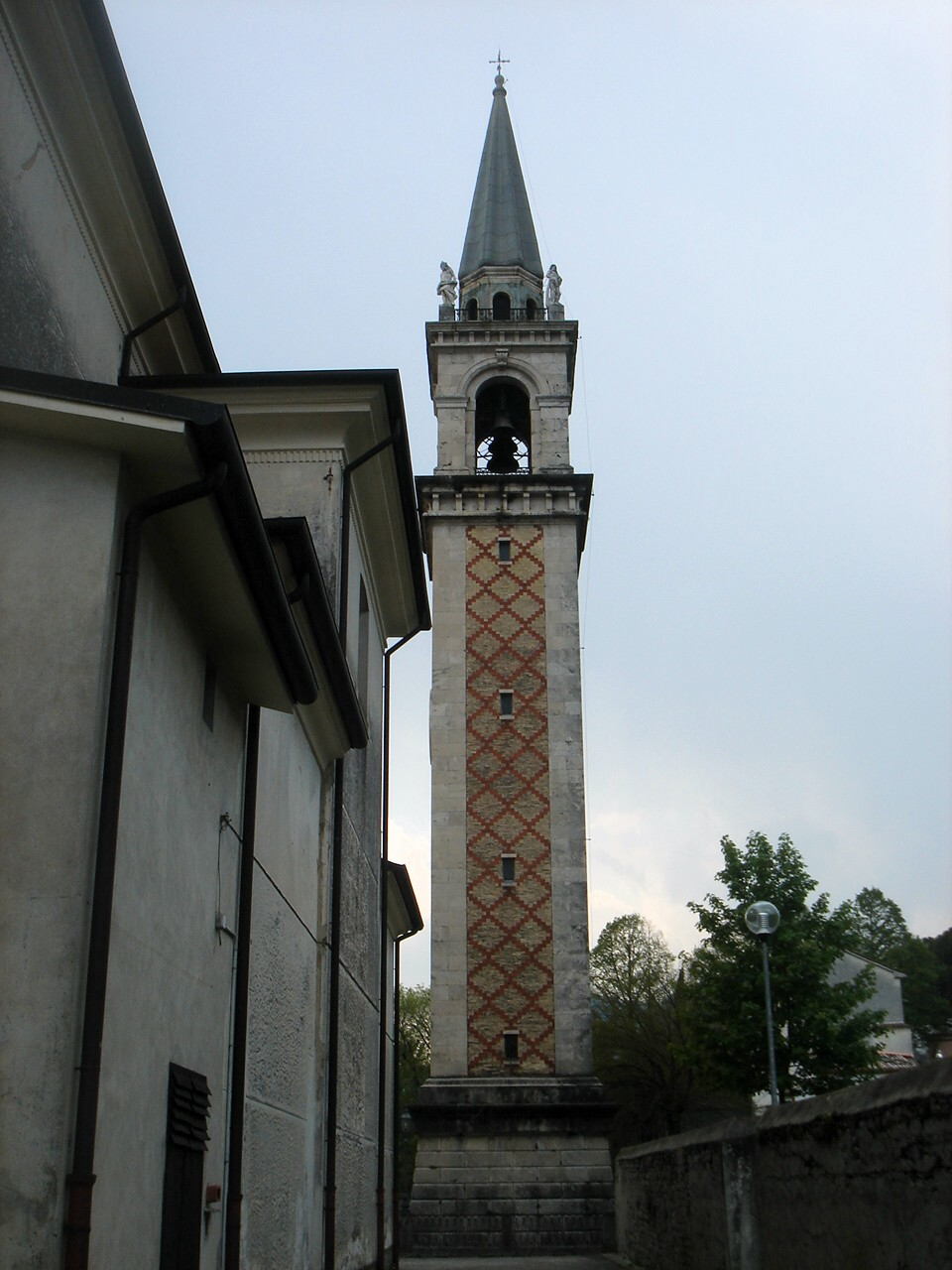 Solighetto (Pieve di Soligo): Campanile